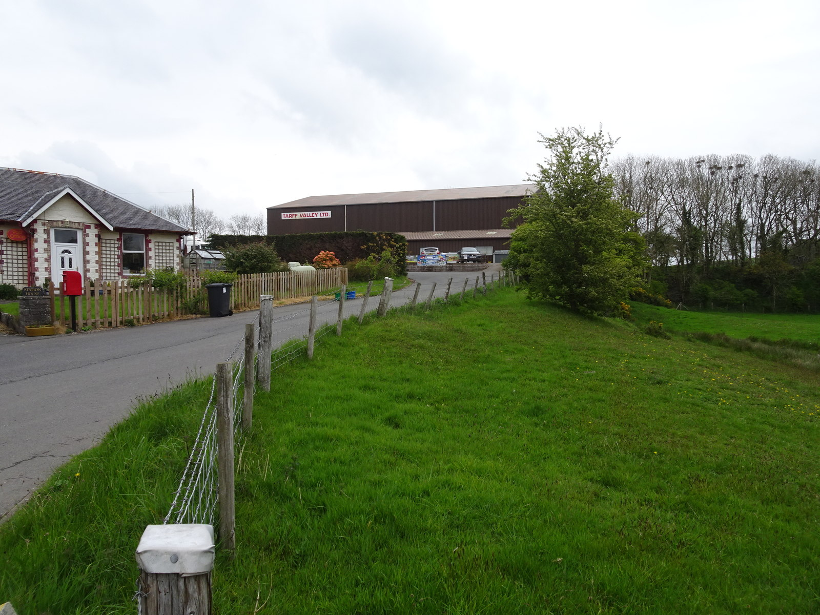 Whauphill railway station (site), Dumfries & GallowayOpened in 1875 by the Wigtown Railway on what later became the Portpatrick & Wigtownshire Joint Railway branch line from Newton Stewart to Whithorn, this station closed to passengers in 1950 an completely in 1964. View east up the approach road - the station stood where the business premises now are. The railway embankment can still be seen on the far right of the image, heading towards Sorbie and Whithorn.